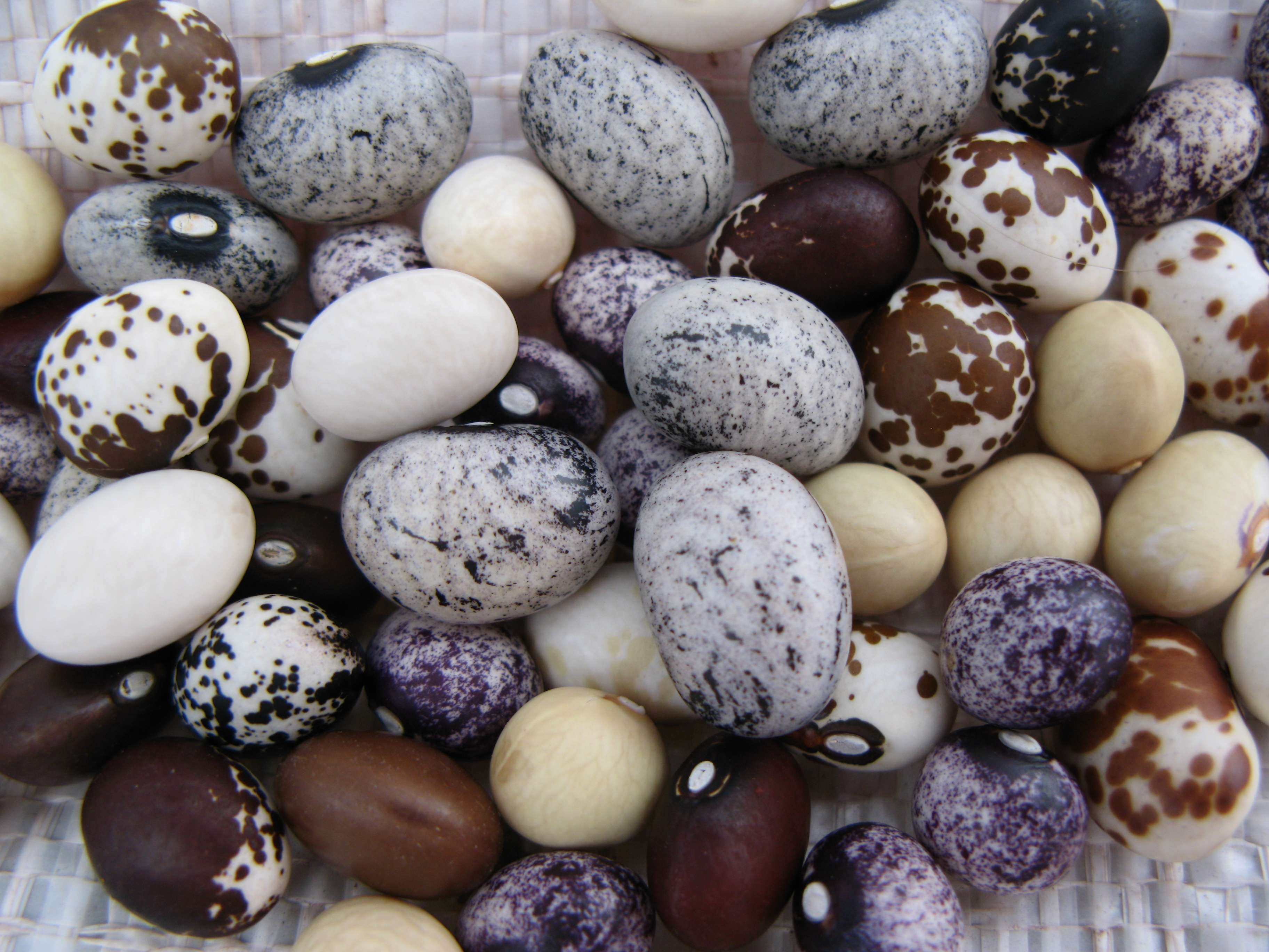 Popping beans, or ñuñas as they are called in Peru, belong to an indeterminately growing varietal group of common beans, whose seeds expand upon toasting. They are a popular snack in parts of Peru and Ecuador, but little known outside their very limited “insular” distribution. Locality: Urubamba, Peru, INIA experimental field station.